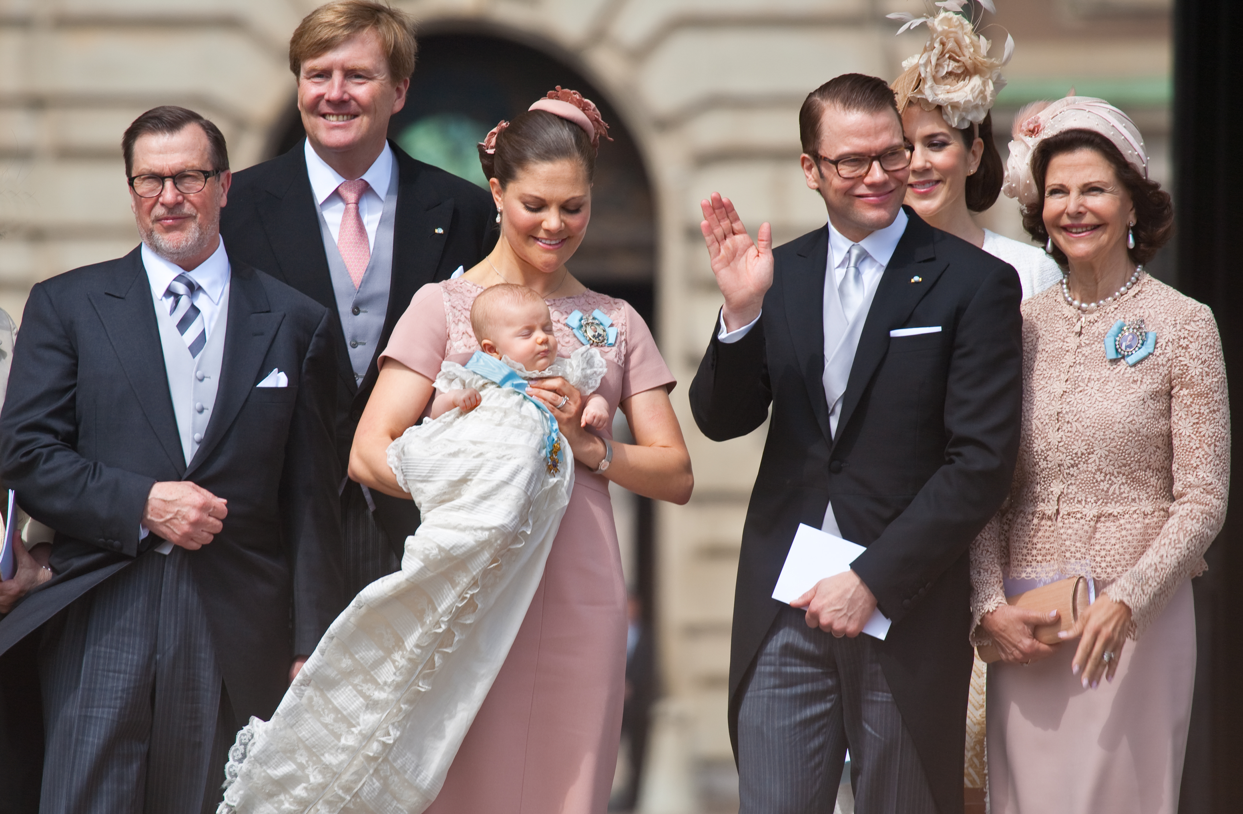 Princess Estelle Silvia Ewa Mary immediately after her baptism in Stockholm, Sweden, May 2012